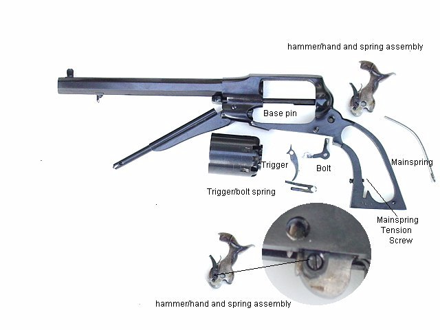 Remington New Model Army fully dismounted